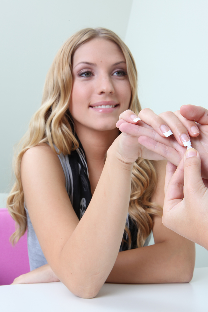 Fing'rs Natural French Spitzen